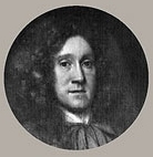 Johan Ekeblad (1629-1696) a swedish writer